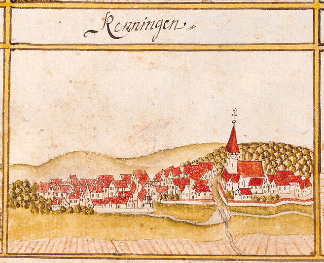 View of Renningen from the forest register books created by Andreas Kieser